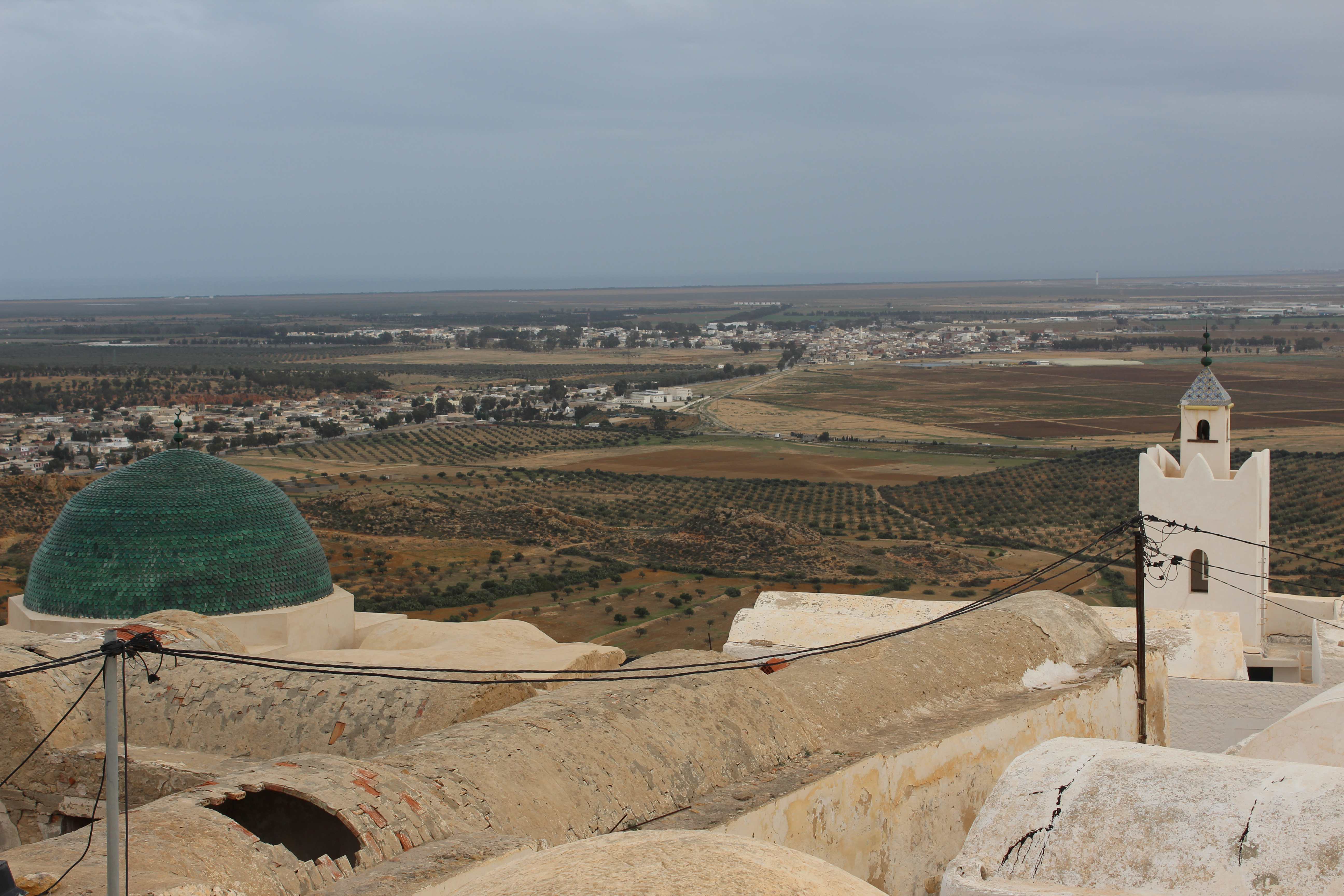 mosque in takrouna .